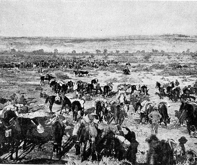 A halt in the Jordan Valley for Allied forces following the capture of Jericho in February 1918, during World War I (Middle Eastern theatre)